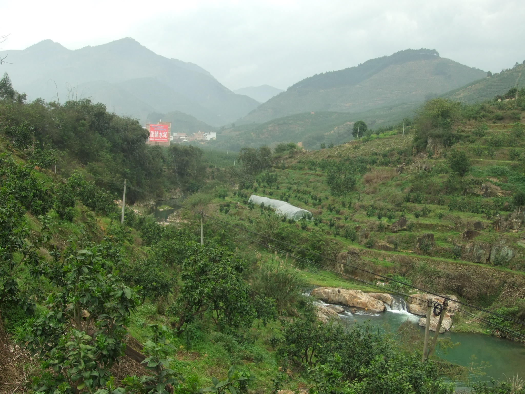 The Jinxi Creek Valley in Pinghe County, Fujian, somewhere between Tuanjie Village (Xiazhai Town) and Jiulou Village (Xiaoxi Town).